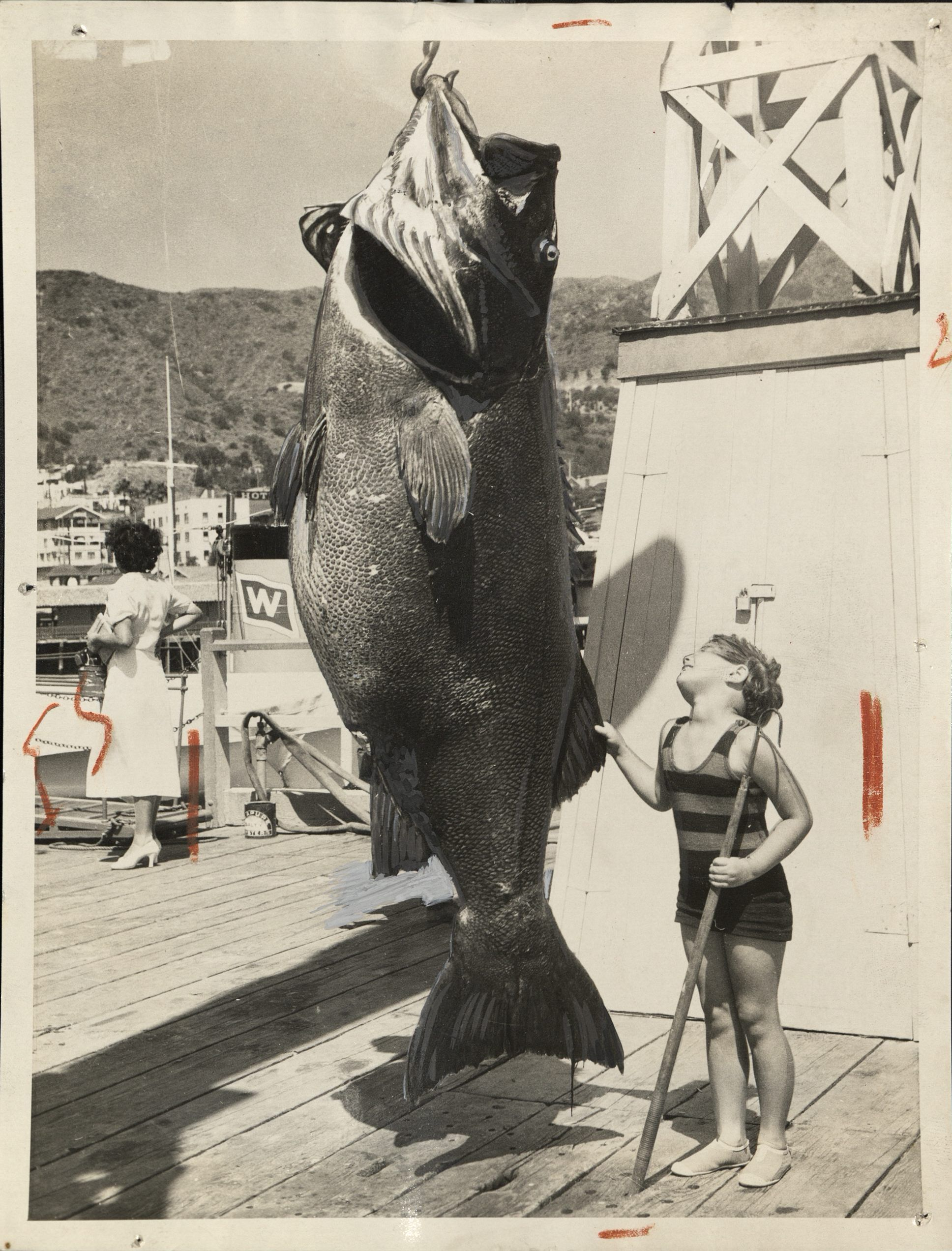 Photo of a particularly large giant sea bass being displayed.